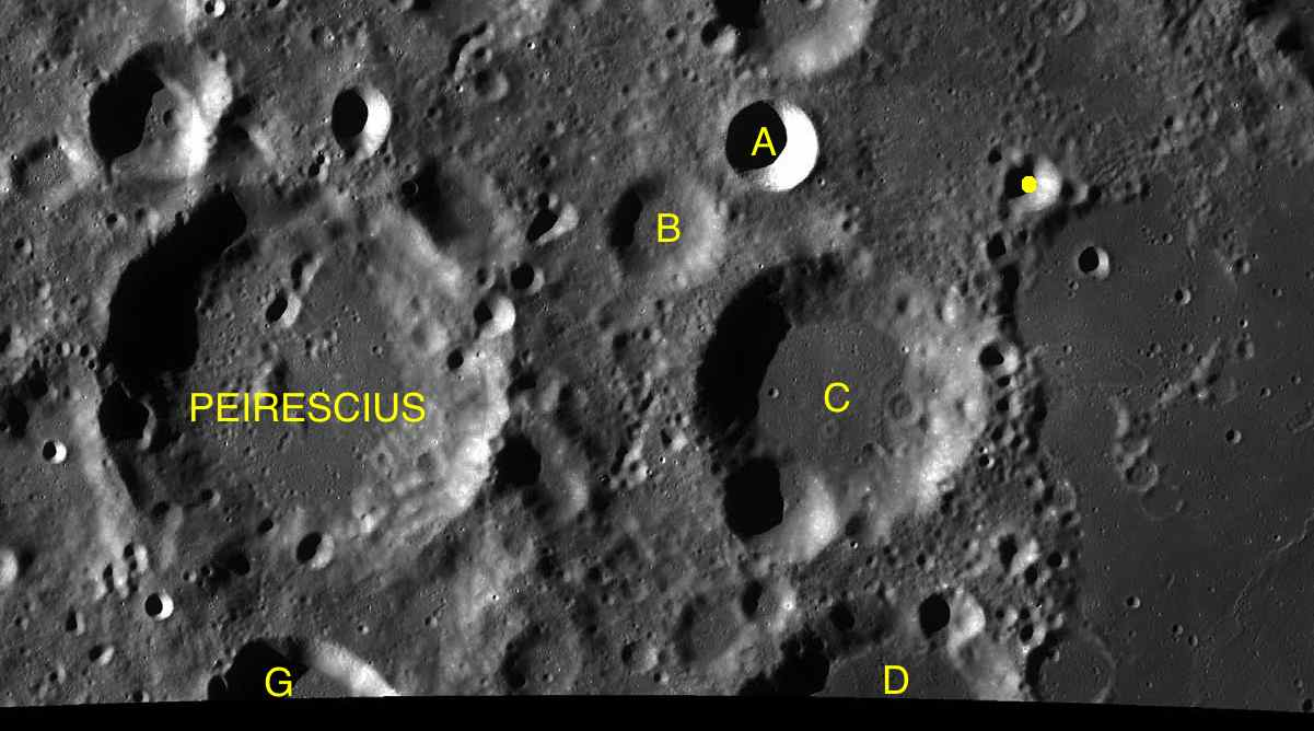 Part of the chart LAC-115 used for the presentation